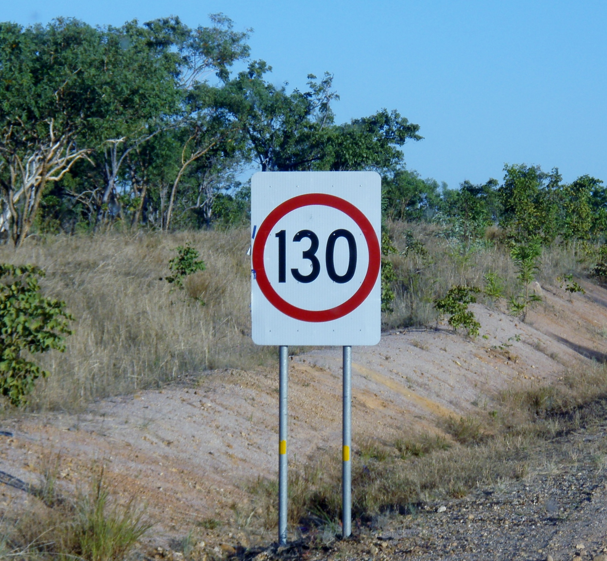 Northern Territory, Australia 130 Km/hour speed limit sign. June 2011